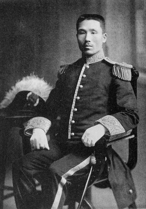 Tanetada Tachibana